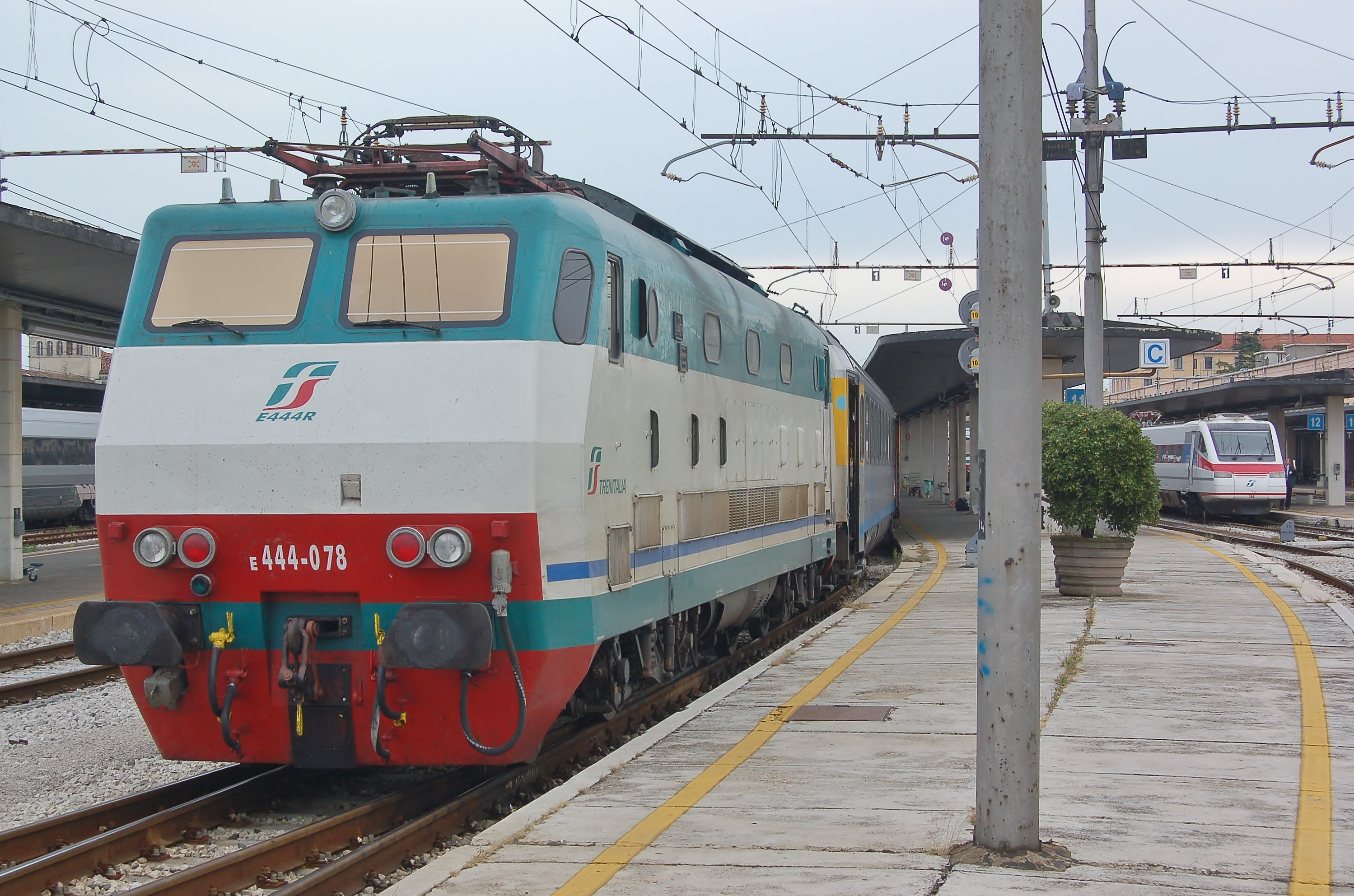 Trenitalia E444-078 awaits departure from Venezia Santa Lucia, Italy, with a EuroCity Cisalpino train bound for Genève-Aéroport, Switzerland. A Trenitalia ETR 460 electric multiple unit can be seen at right.